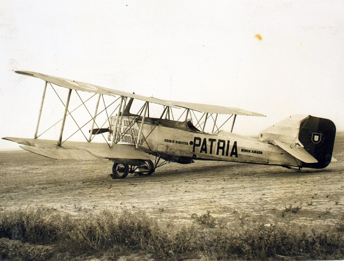 Breguet Bre.16Bn2 "Patria" ("Patria I") of the Portuguese Air Force. Used to attempt the first Lisbon-to-Macau flight, starting 7 April 1924. Crashed in India 7 May 1924.